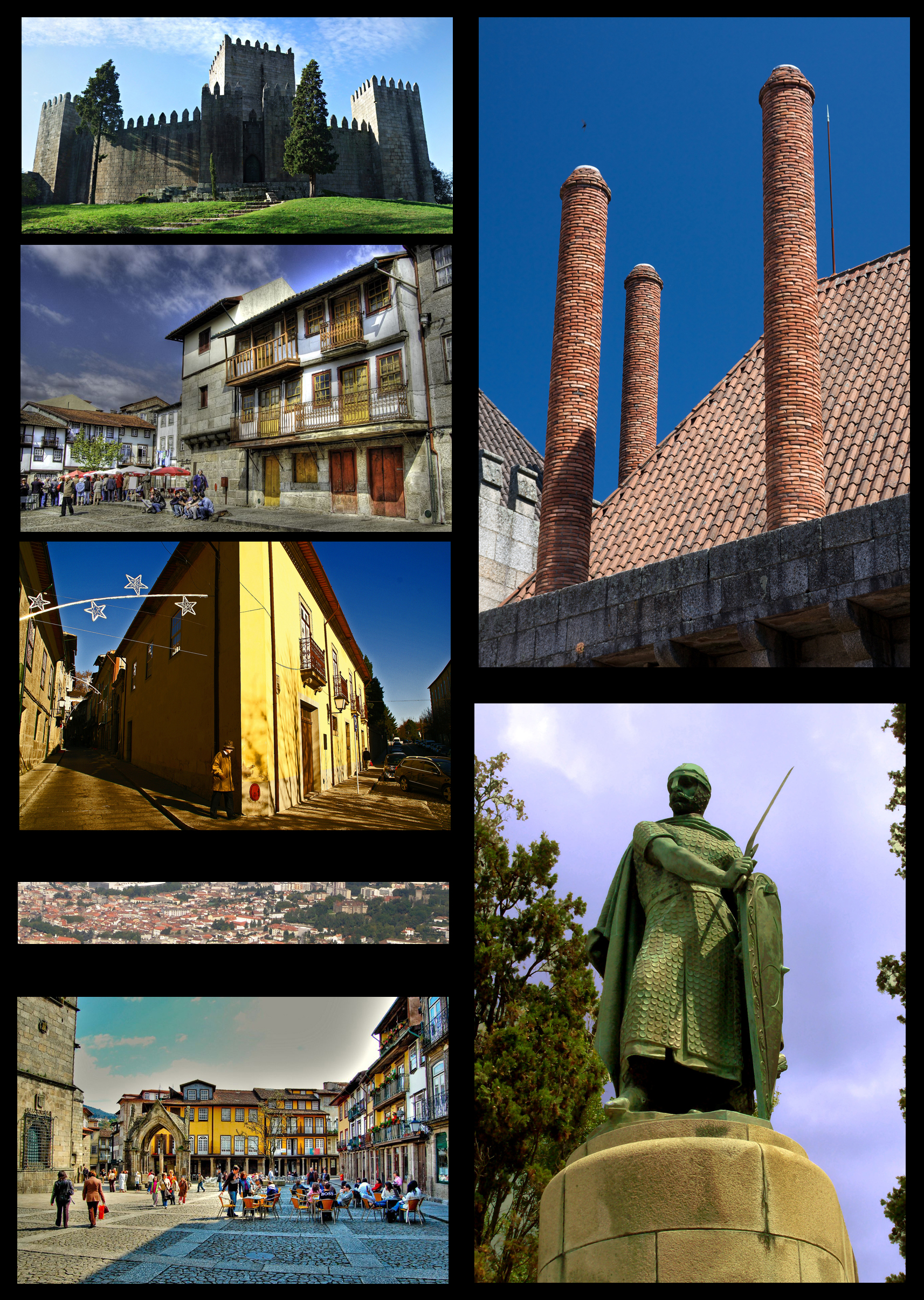 Composition of several images of the Historic Center of Guimarães; From the upper right hand corner; 1 - Chimneys at Palace of the Dukes of Braganza, Guimarães, Portugal; 2 - Dom Afonso Henriques; 3 - Oliveira´s plaza; 4 - The historic center of Guimarães, Portugal, as seen from the montain of Penha in 5 of September 2006, around 11:03am; 5 - Santa Maria Street, Guimarães, Portugal; 6 - Some buildings in Santiago´s Plaza, Guimarães, Portugal; 7 - Guimarães Castle as seen from the São Mamede field.